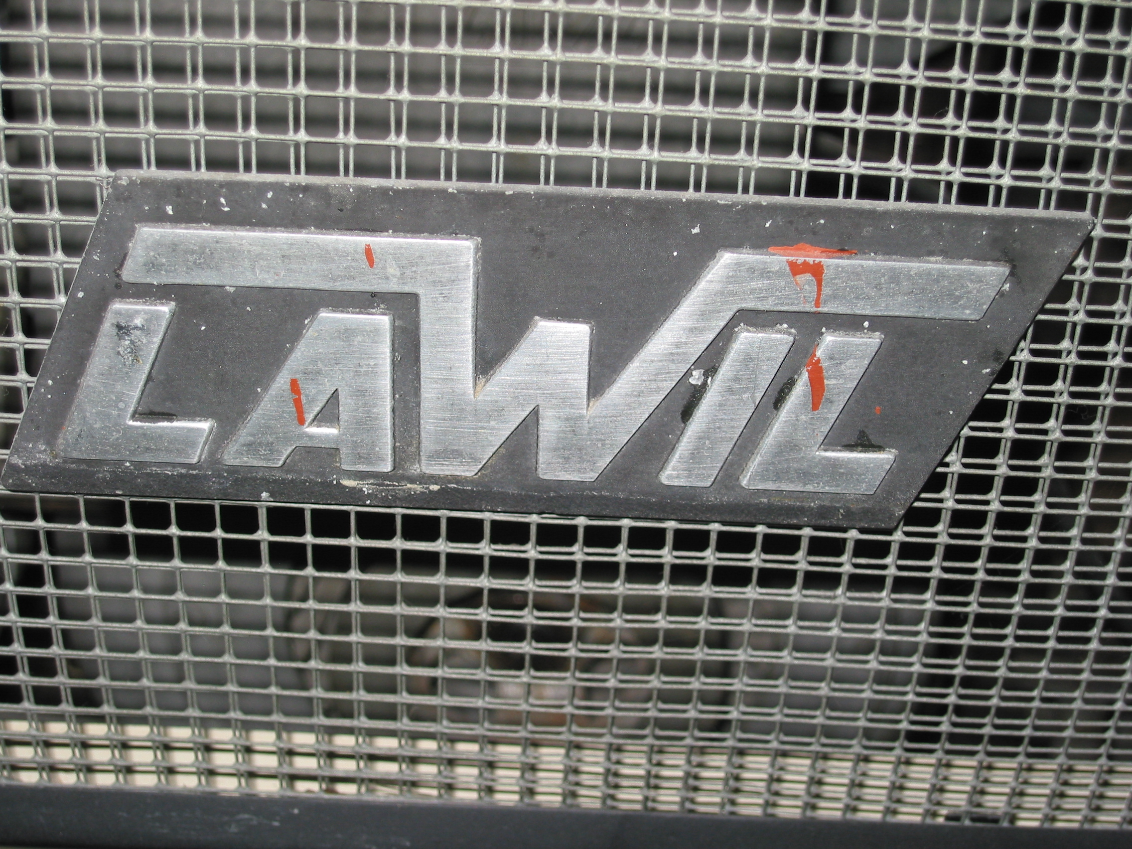 Emblem Lawil